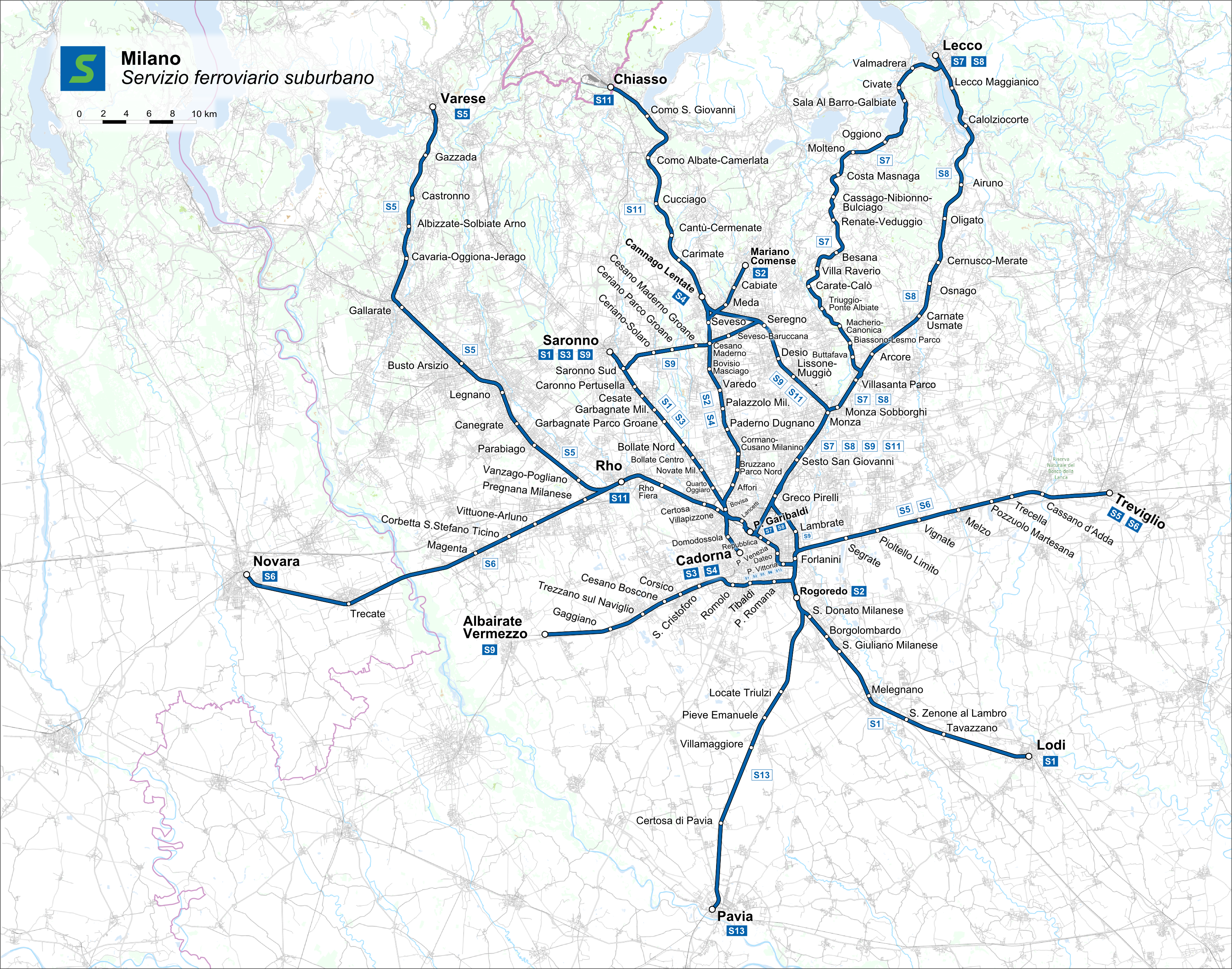 Map of Milan_suburban_railway_service